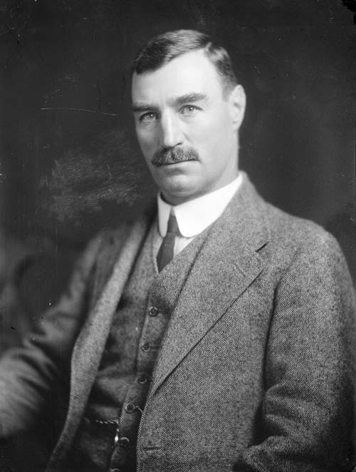 George William Forbes, photographed by S P Andrew Ltd, 28 July, 1914.